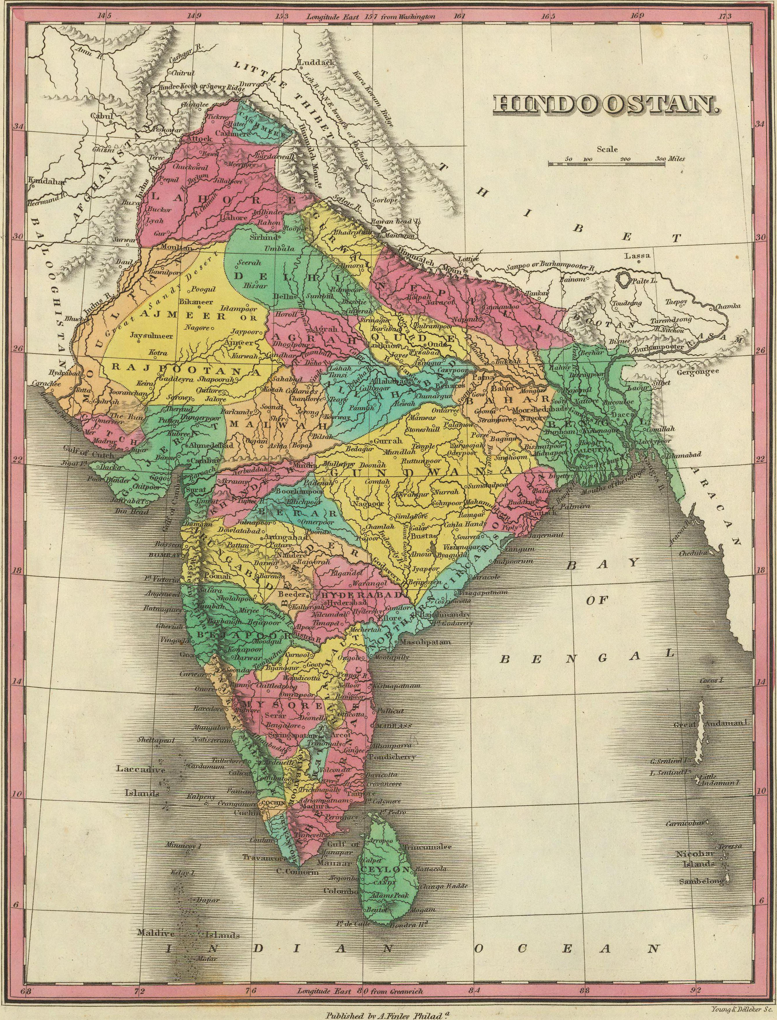 Map of Hindostan or India (1831) by Anthony Finley